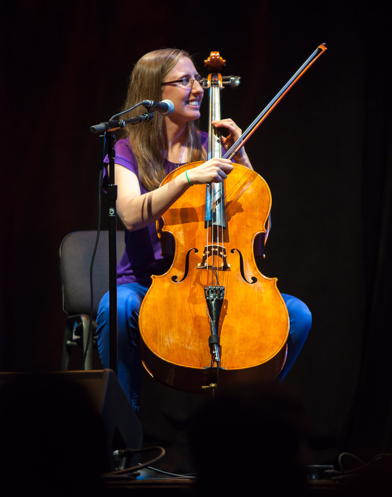 W00tstock 4.0 - The Doubleclicks The Doubleclicks at W00tstock 4.0 in 2012.